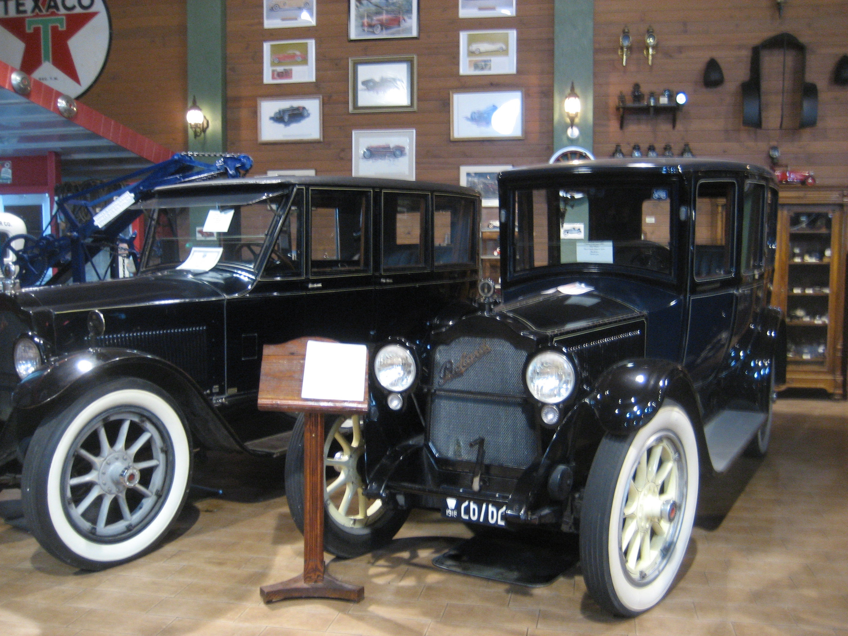 1918 Packard 3-25 Twin Six 7-passenger Brougham auto on display at Fort Lauderdale Antique Car Museum.